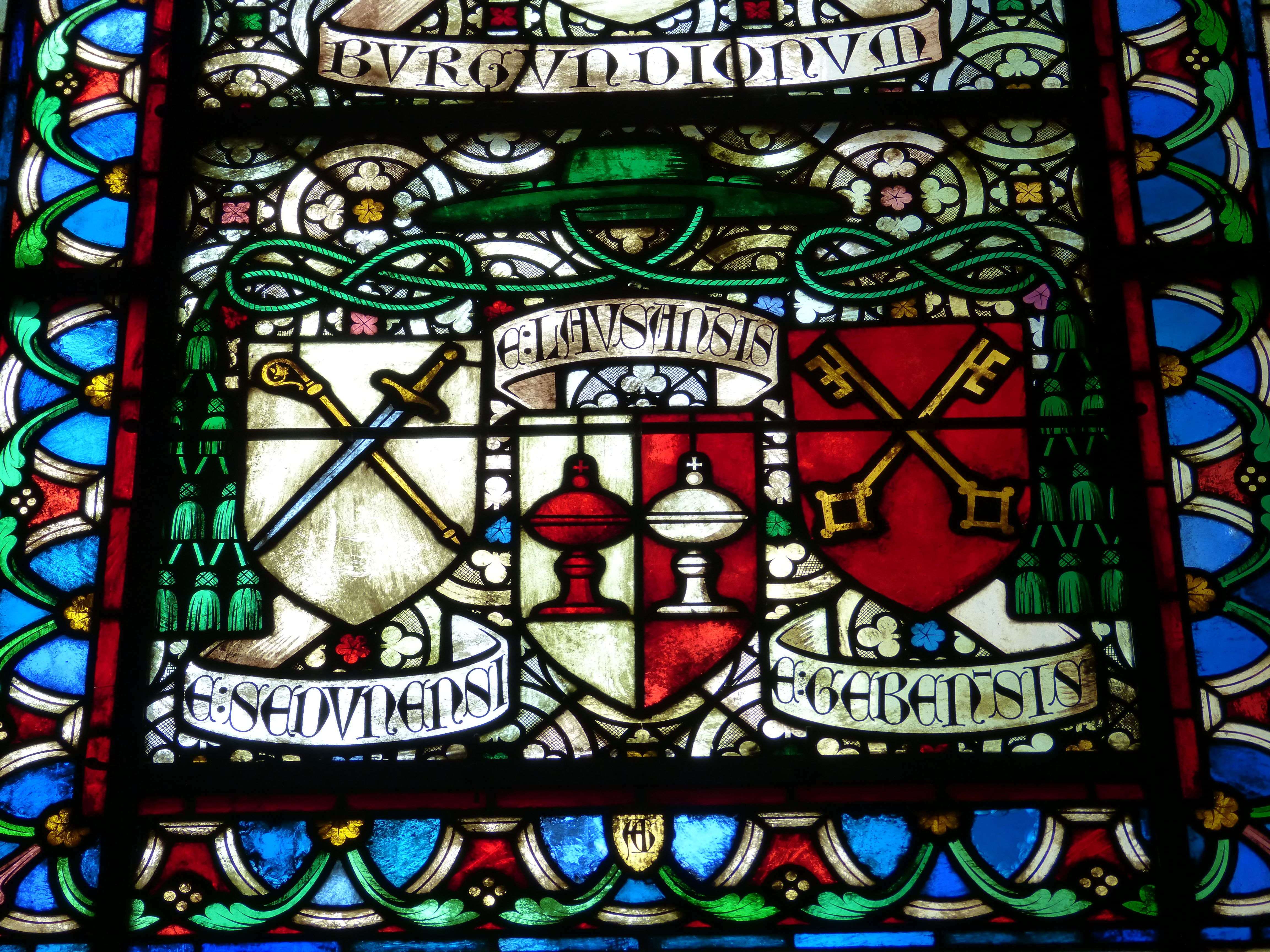 Coat of arms representing the diocese of Lausanne as an archidiocese with, on the left side the suffragan diocese of Sitten and on the right side, the one of Geneva. Stained glass window in Lausanne cathedral.